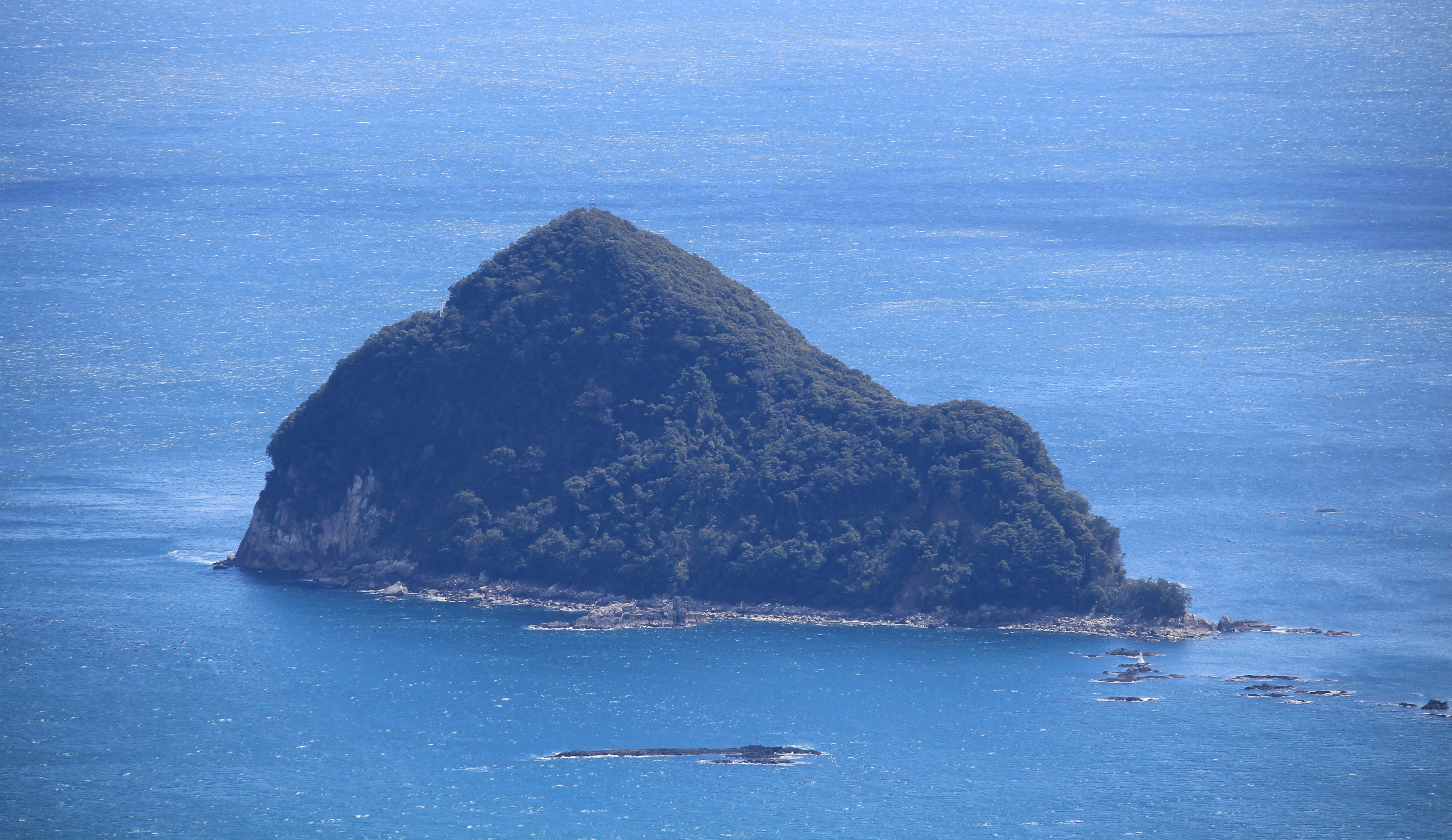 Nageishi, Nageishi Sabaru Island and Toga Island seen from Ochoboiwa on Mount Tengura, in Owase Mie prefecture, Japan.